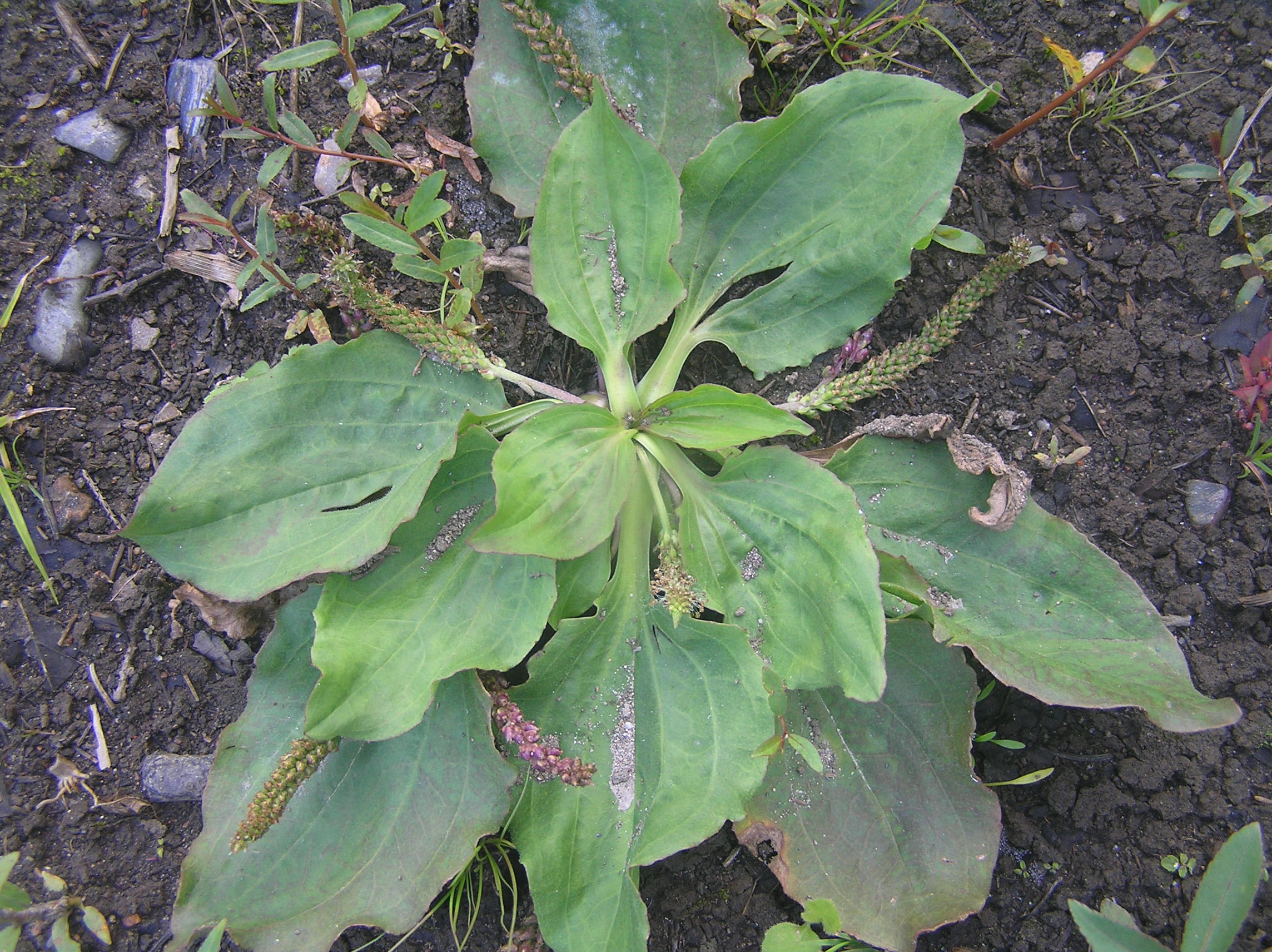 Plantago uliginosa, Pastviny near Žamberk, Czech Republic